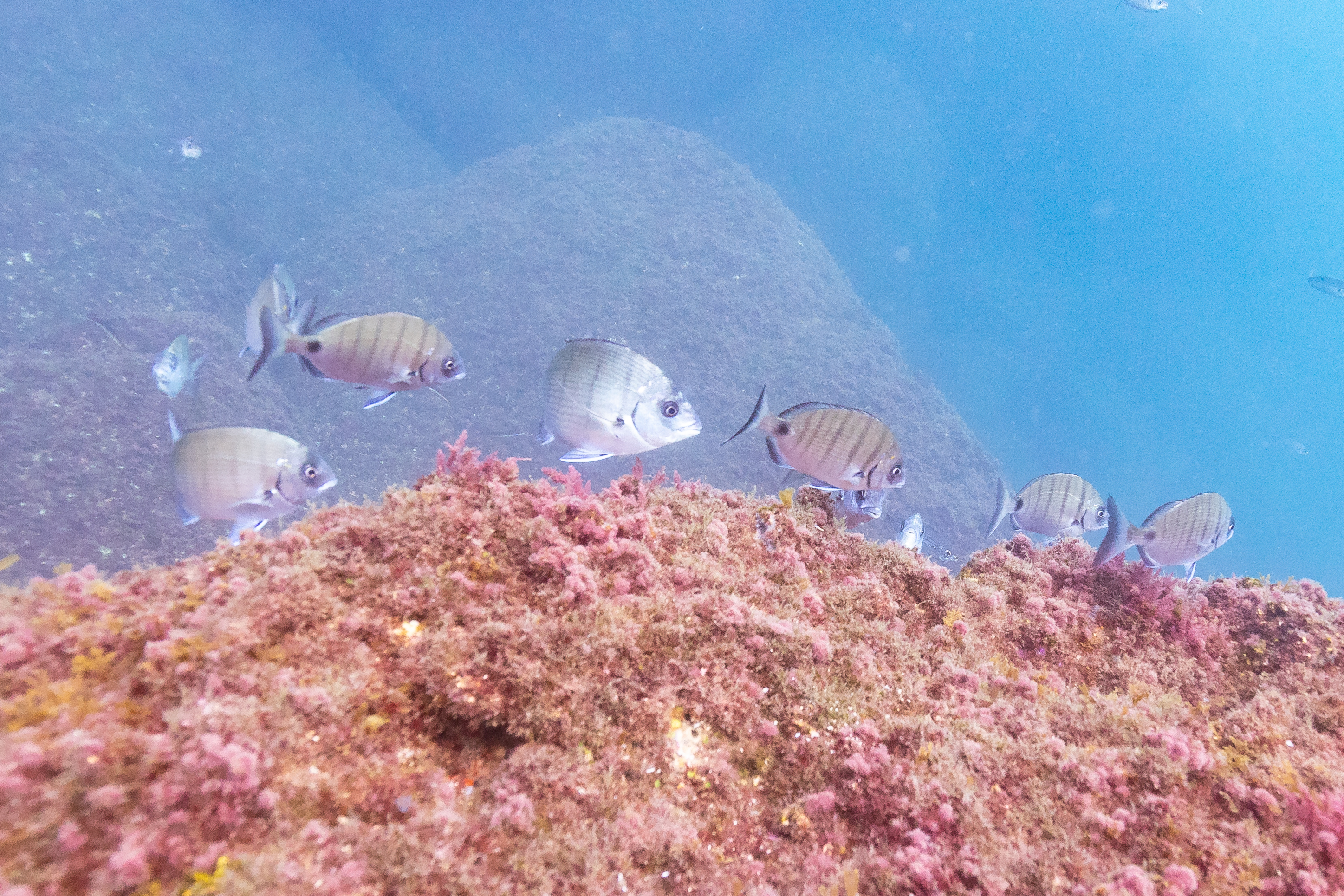 Group of sharp-snout seabreams (Diplodus puntazzo), Mouro Island, Santander, Spain